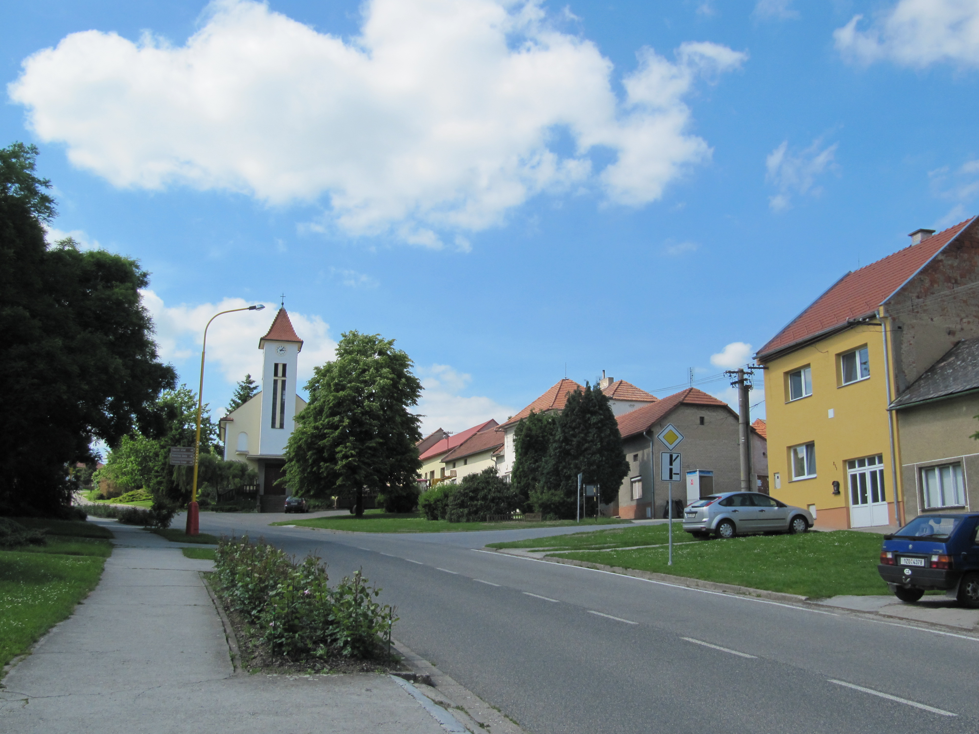 Žlutava in Zlín District, Czech Republic.